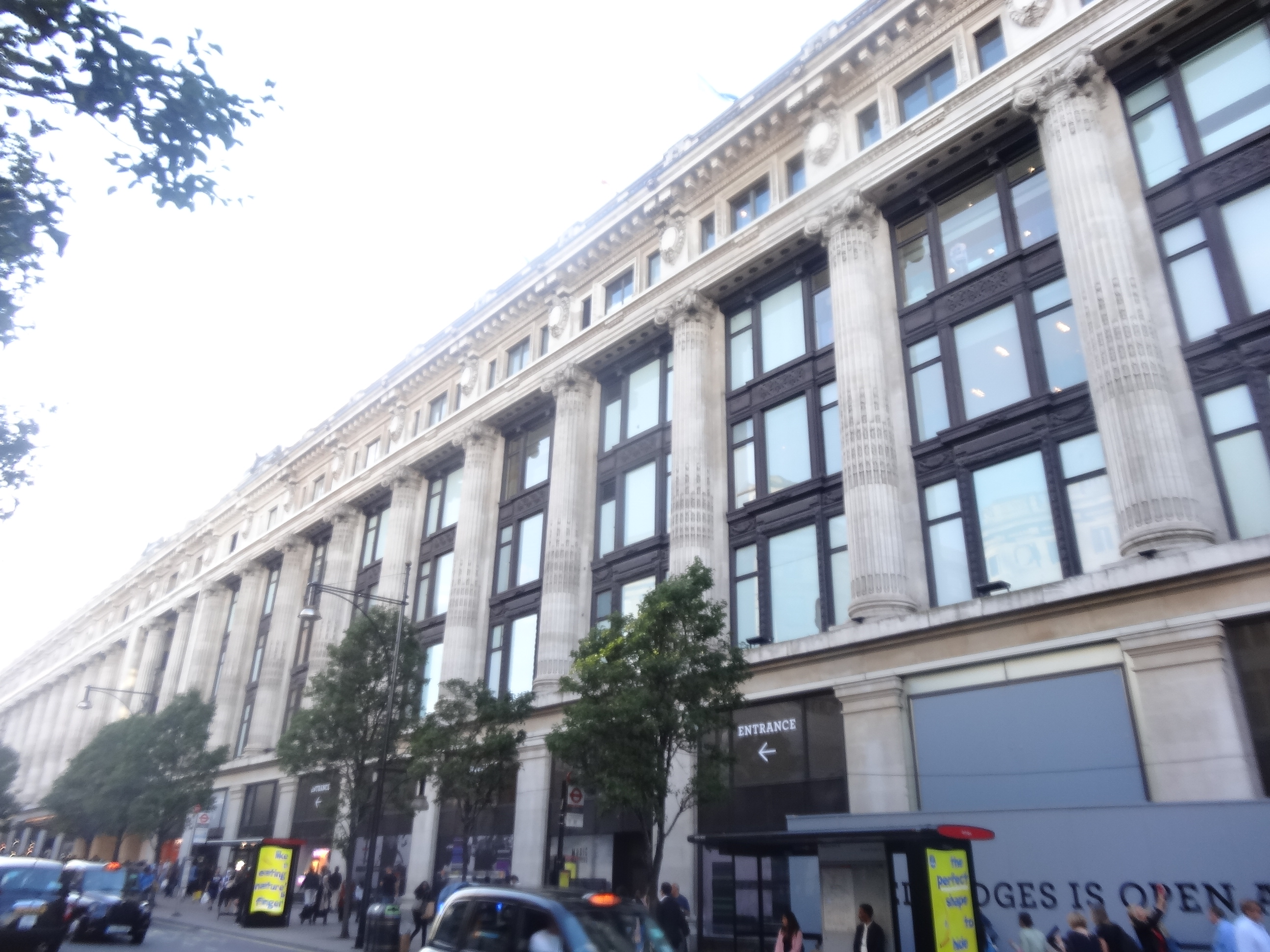 Selfridges